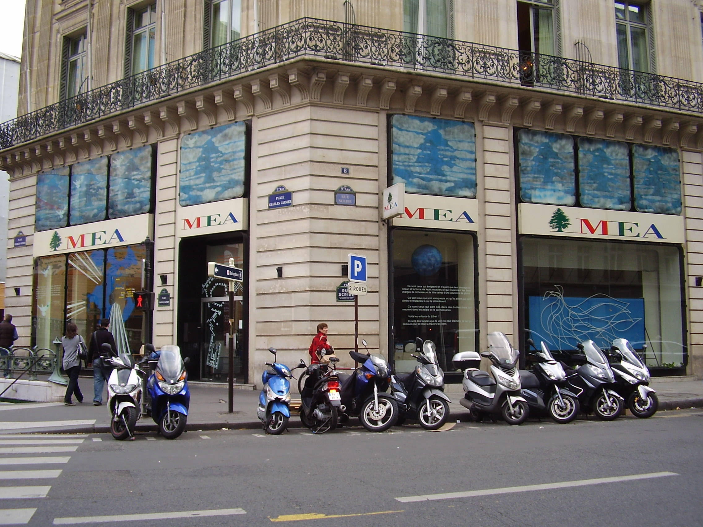 Middle East Airlines office, 9th arrondissement, Paris - 6, Rue Scribe. 75009 Paris